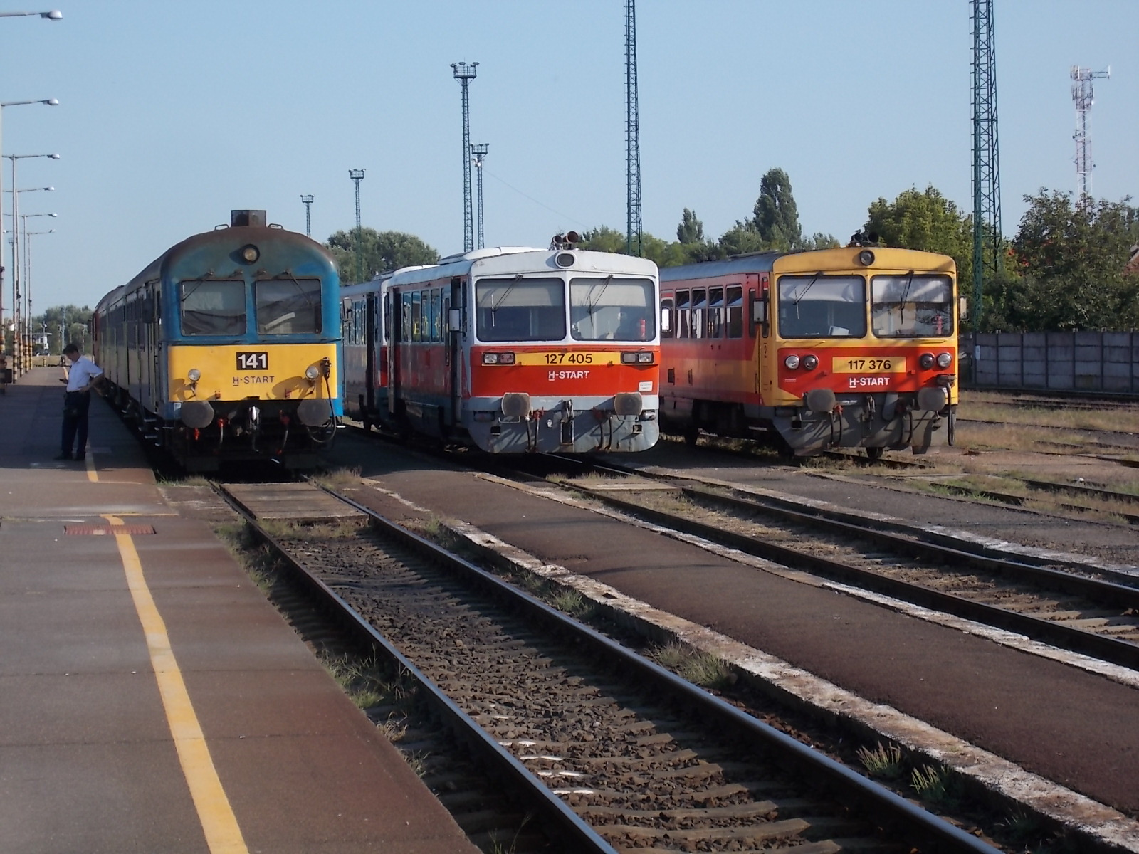 H-Start 141, H-START 127 405, H-Start 127 405 - Mátészalka, Szabolcs-Szatmár-Bereg County, Hungary.